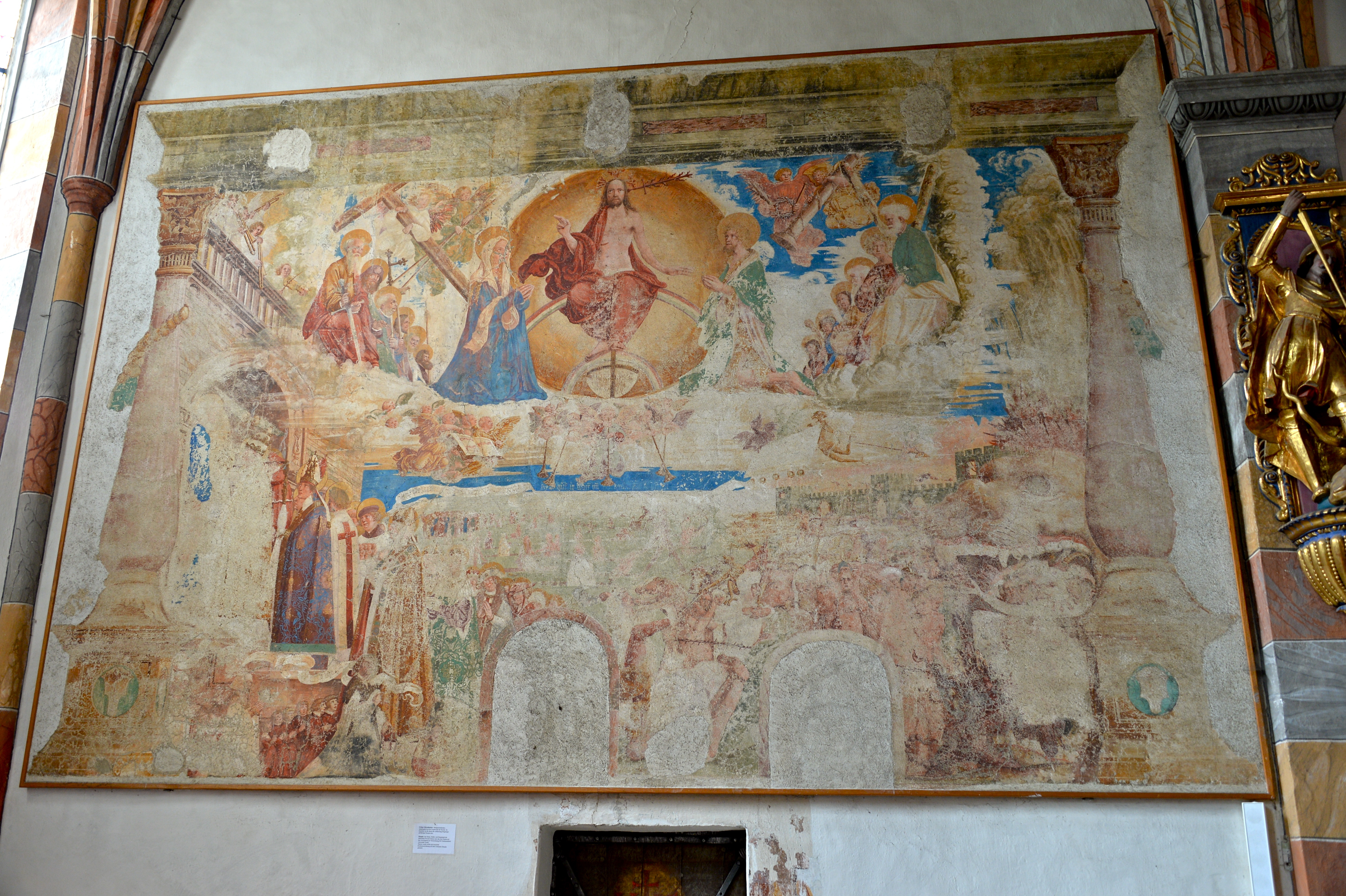 "Last Judgment” (fresco by Urban Goertschacher in 1518) on the choir south wall of the parish church Saint Salvator and All Hallows, market town Millstatt, district Spittal an der Drau, Carinthia, Austria, EU